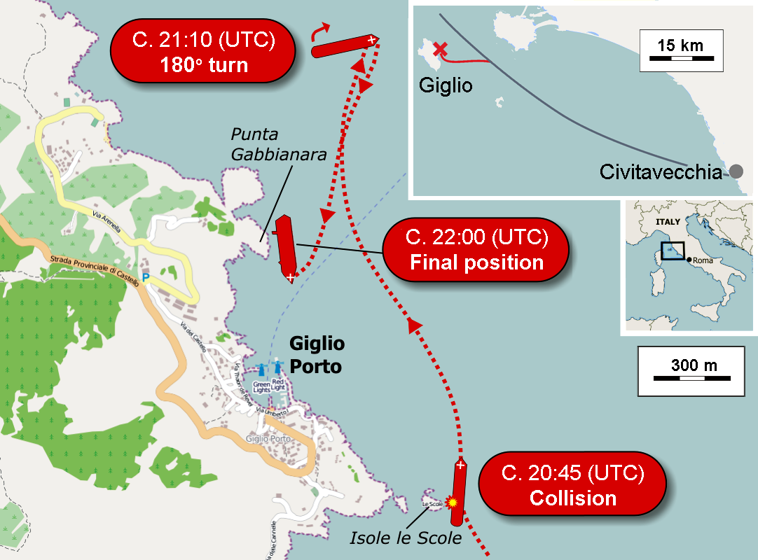 Final course and position where the Costa Concordia cruise-ship ran aground close to the Isola del Giglio, Italy on 2012-01-13. Own work based on media coverage. Source of course: AIS data published here [1]